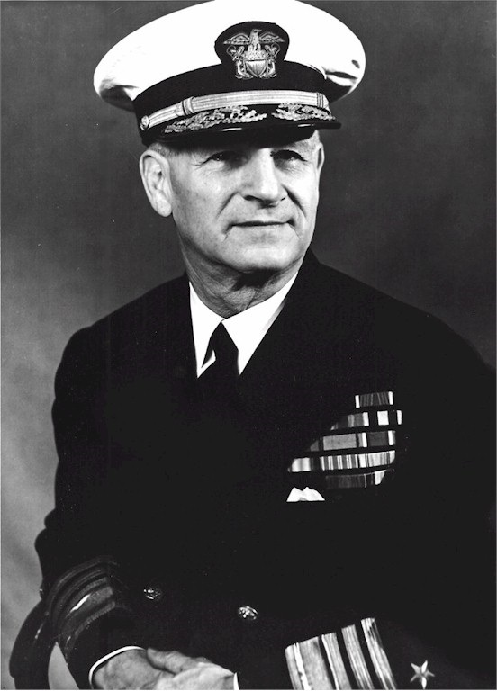 Joseph Knefler Taussig (30 August 1877 – 29 October 1947) was a highly decorated Vice Admiral in the United States Navy. He served in the Spanish–American War, Philippine-American War, China Relief Expedition, Cuban Pacification, World War I, Second Nicaraguan Campaign, and World War II.